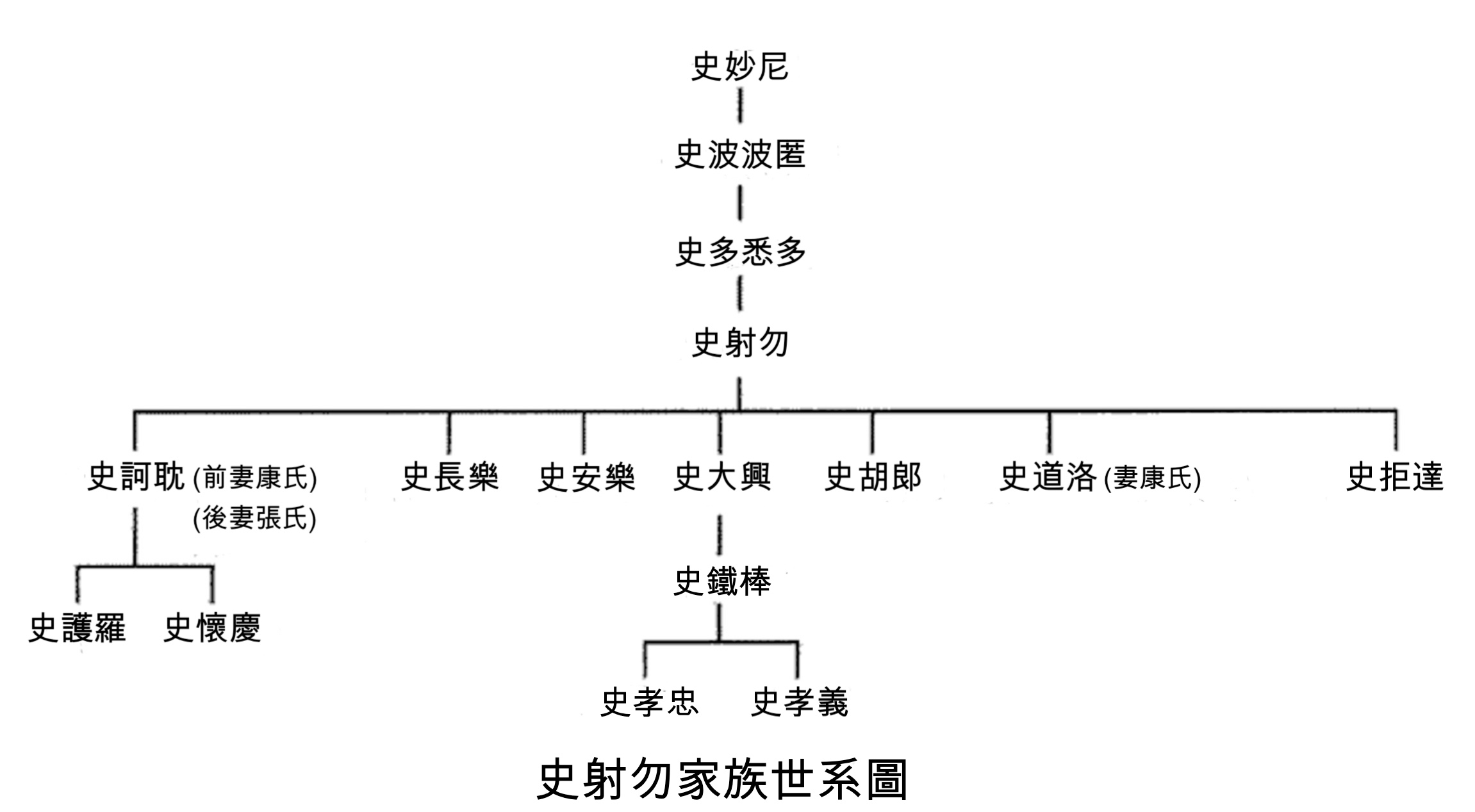 Family tree of the Sogdian Shih family which lived in Early Middle China from 6th to 8th centuries.